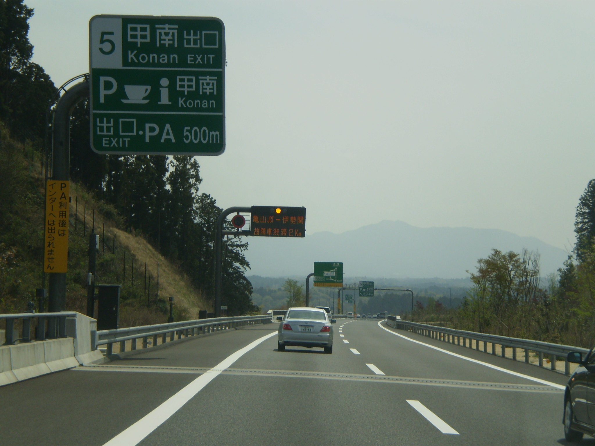 Konan Interchange and Konan Parking Area information sign at Konancho Sugitani, Koka City, Shiga Prefecture, Japan